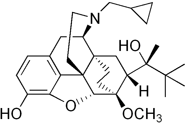 Chemical structure of buprenorphine (C29H41NO4). Created with ChemDraw.